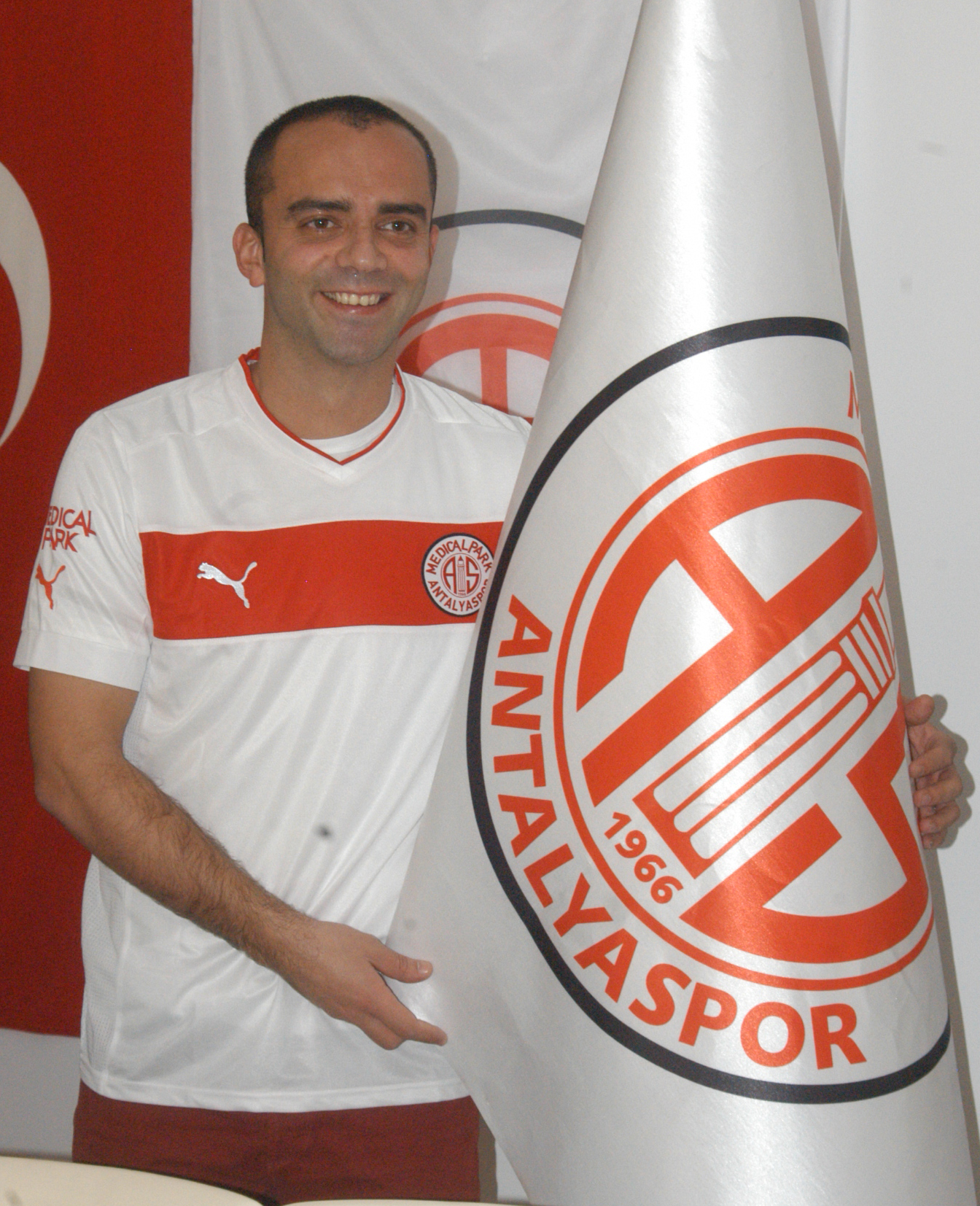 Semih Şentürk imza töreni